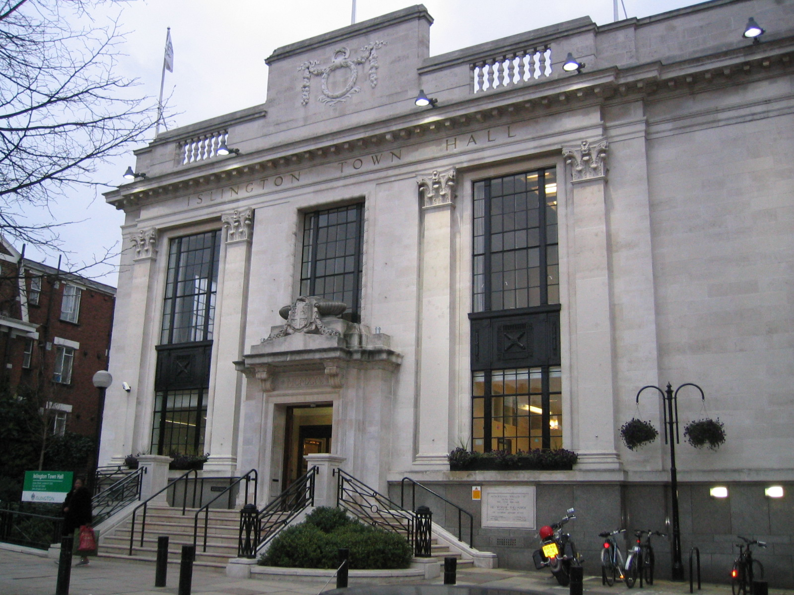 The Town Hall in Islington, London. Photo taken by me 2005-03-09.